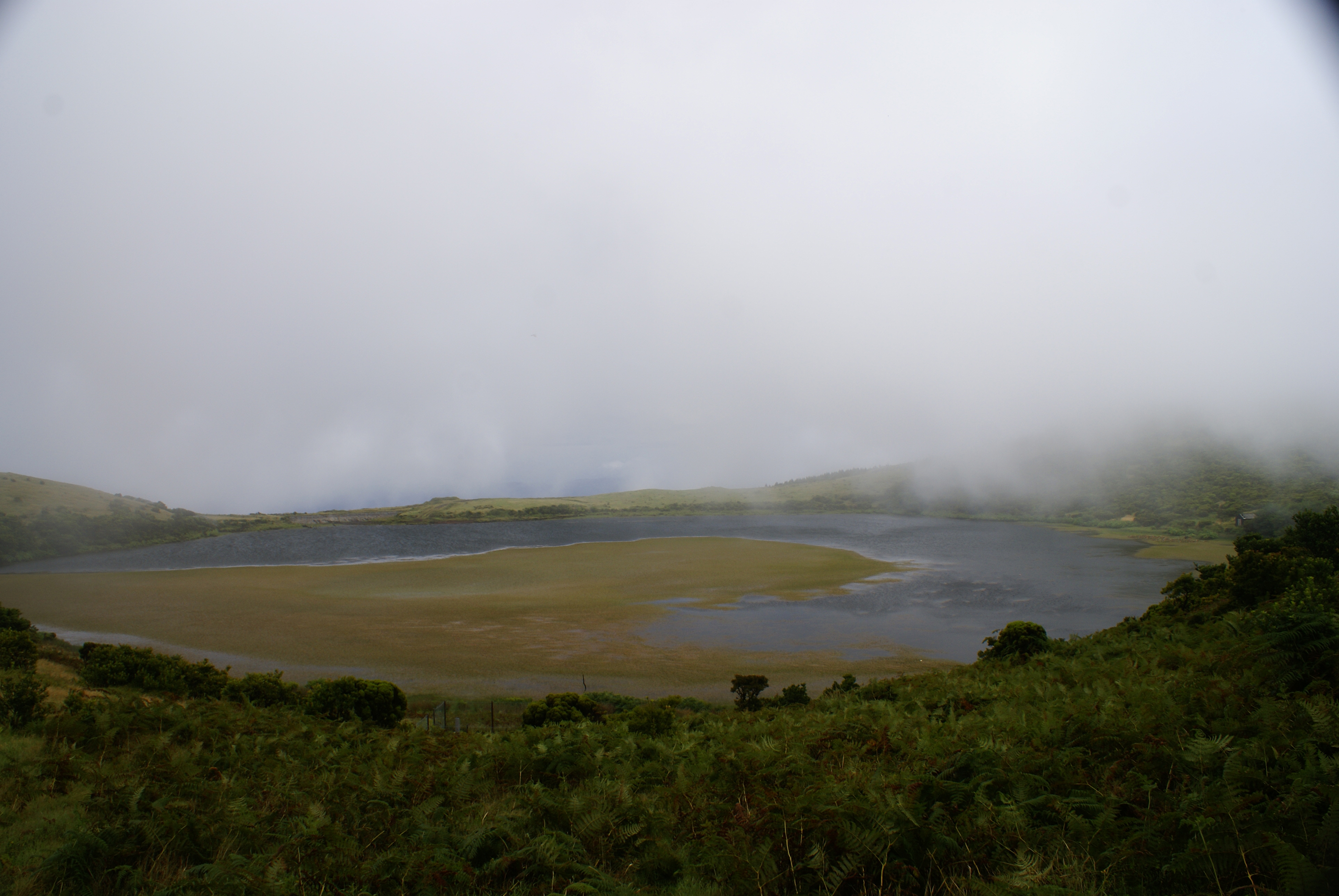 Lagoa do Caiado, municipality of São Roque do Pico, island of Pico, Azores (Portugal)